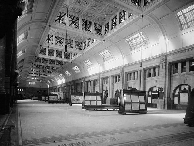 Great Hall: "On it are located the gates to the eight platforms, ticket offices, telephones, telegraphs, train schedule boards, kiosks for books, fruits and flowers and large frames for photographic exhibition and schedules." Retiro station of the Central Argentine Railway, Opening Booklet, 2 August 1915.